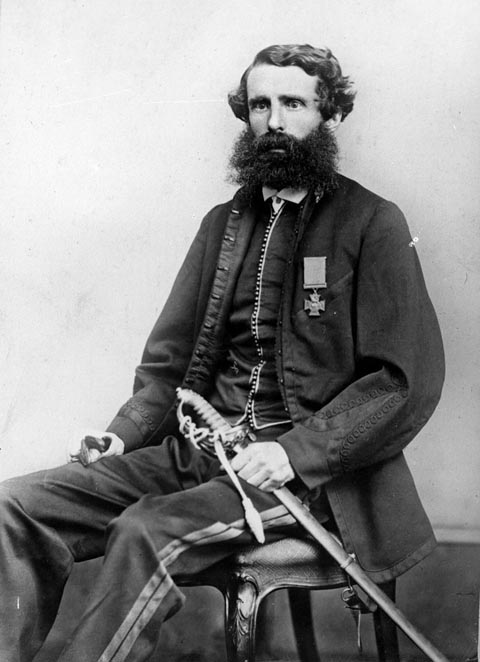 Major Charles Heaphy VC (1821 - 3 August 1881) was a New Zealand explorer and a recipient of the Victoria Cross. Published in Cyclopedia of New Zealand in 1902